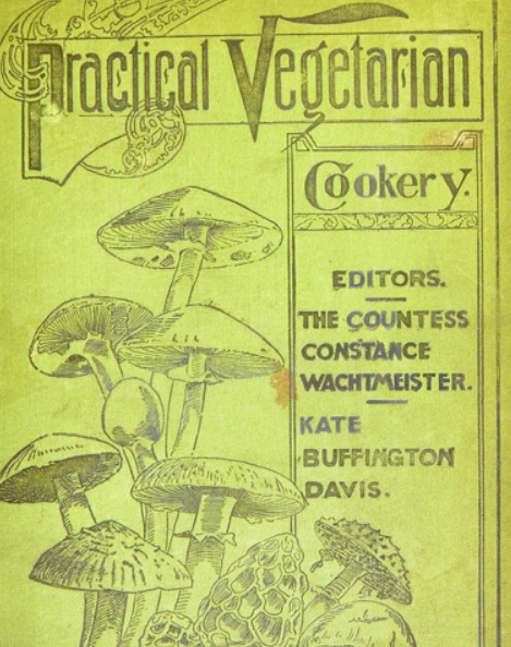 Front cover of Practical Vegetarian Cookery, published in 1897.